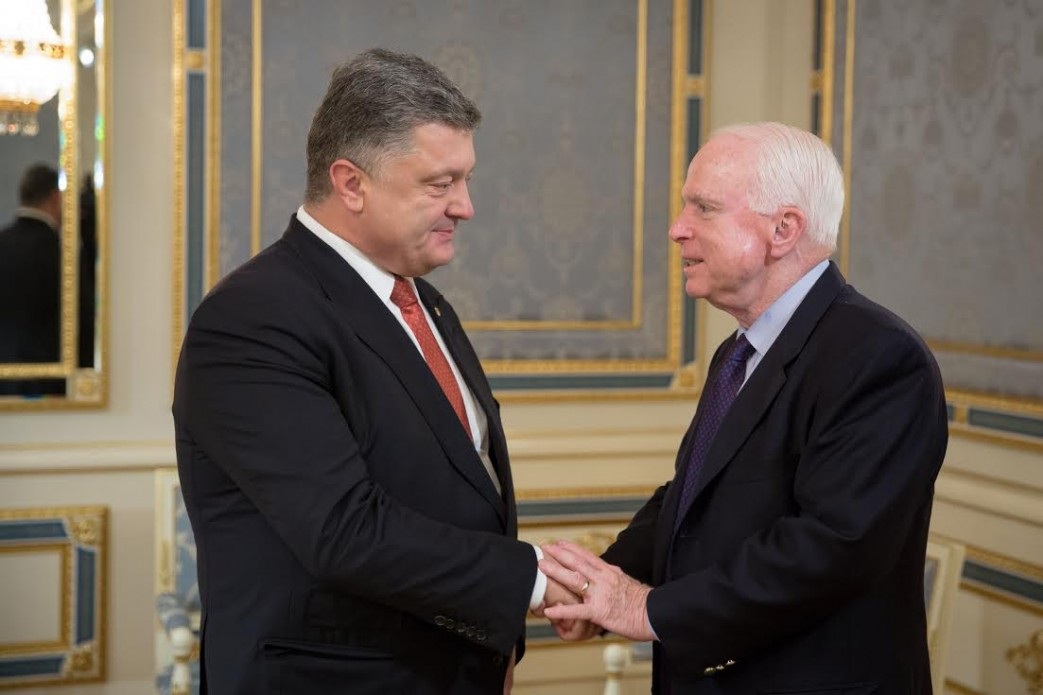 President met with Chairman of the Senate Committee on Armed Services Senator McCain